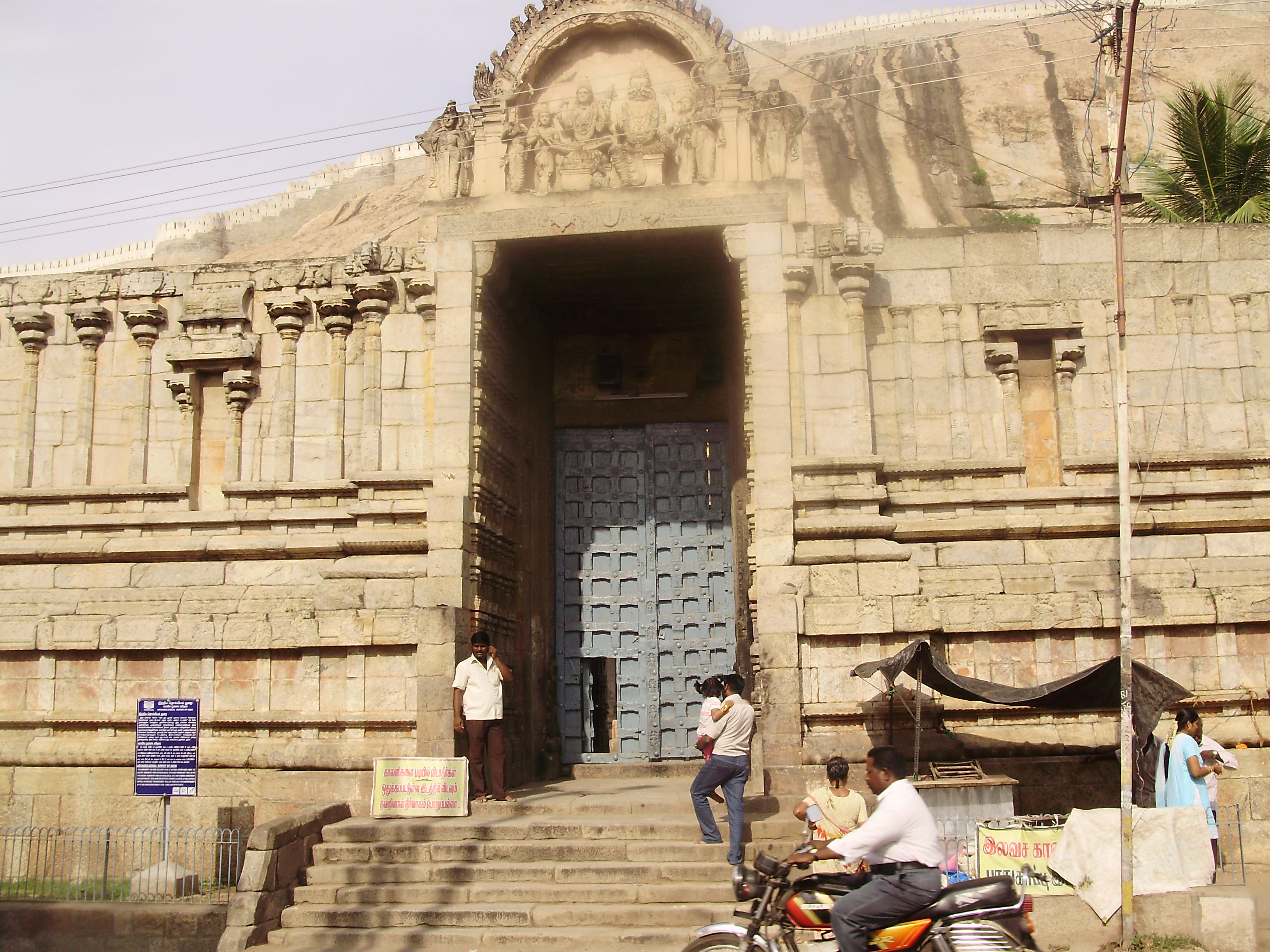 இதுவும் ஒரு குடவரைக்கோவில் தொல்லியல் துறையின் கட்டுப்பாட்டில் உள்ளது